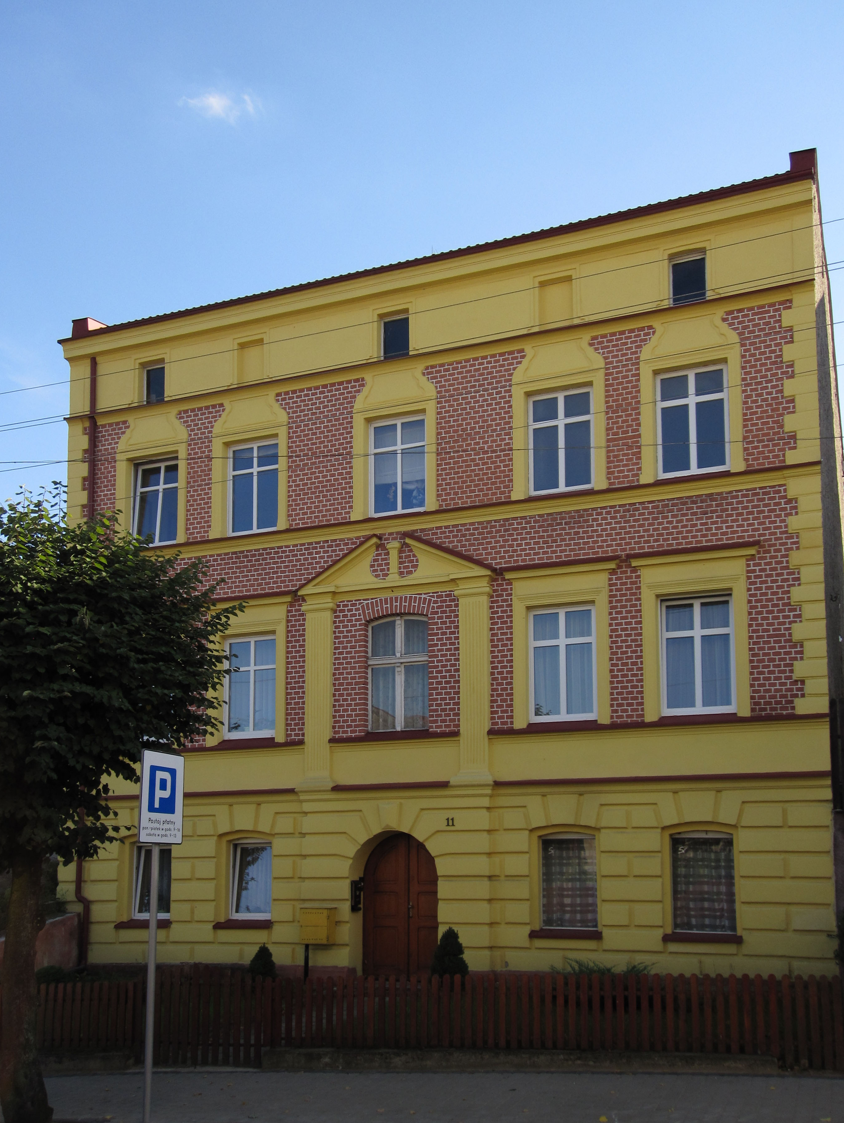 Lidzbark - 11 Ogrodowa str.